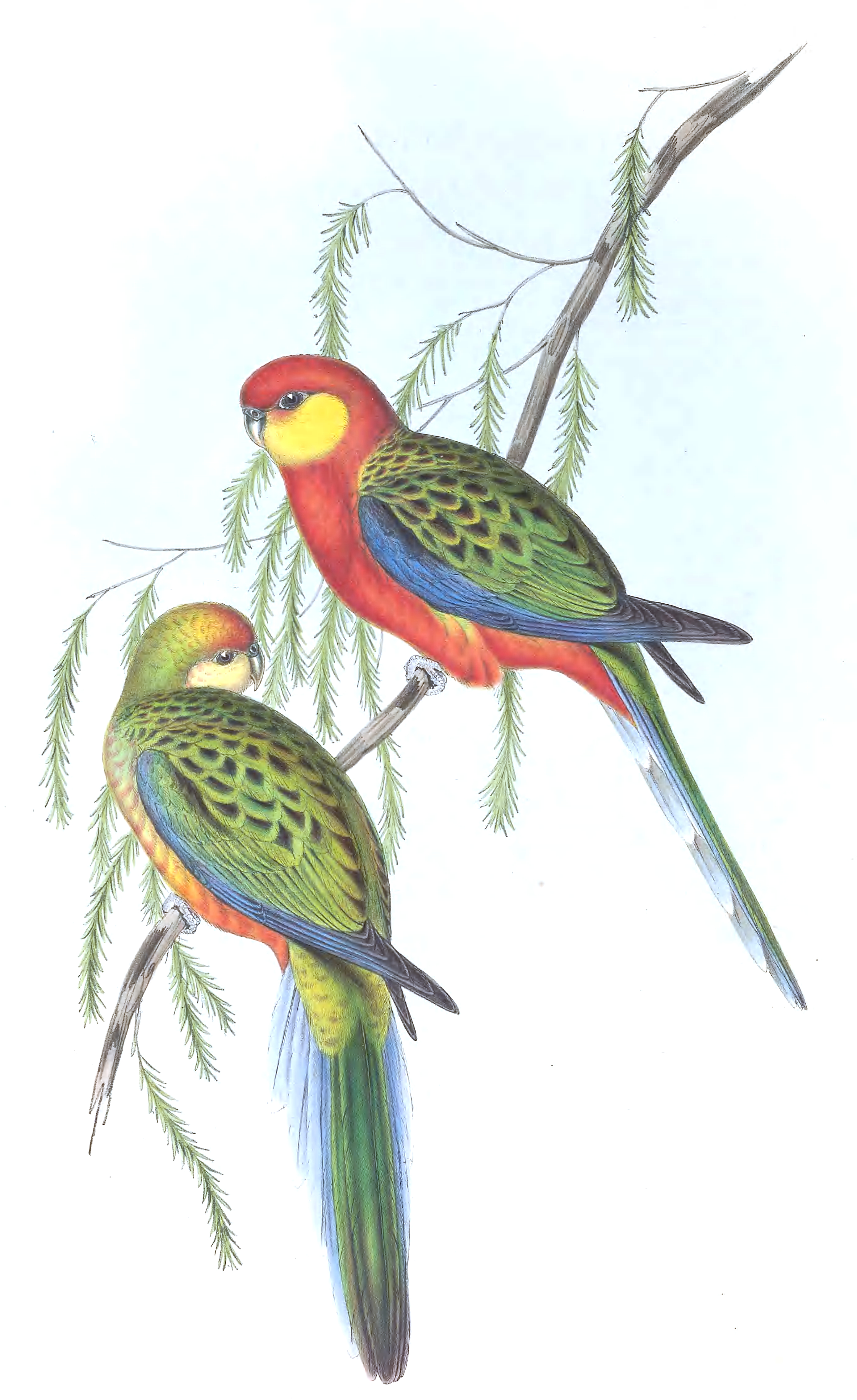 Plate in text illustrating species Platycerus icterotis. The page was cropped to remove caption and crudely lifted with white point at levels